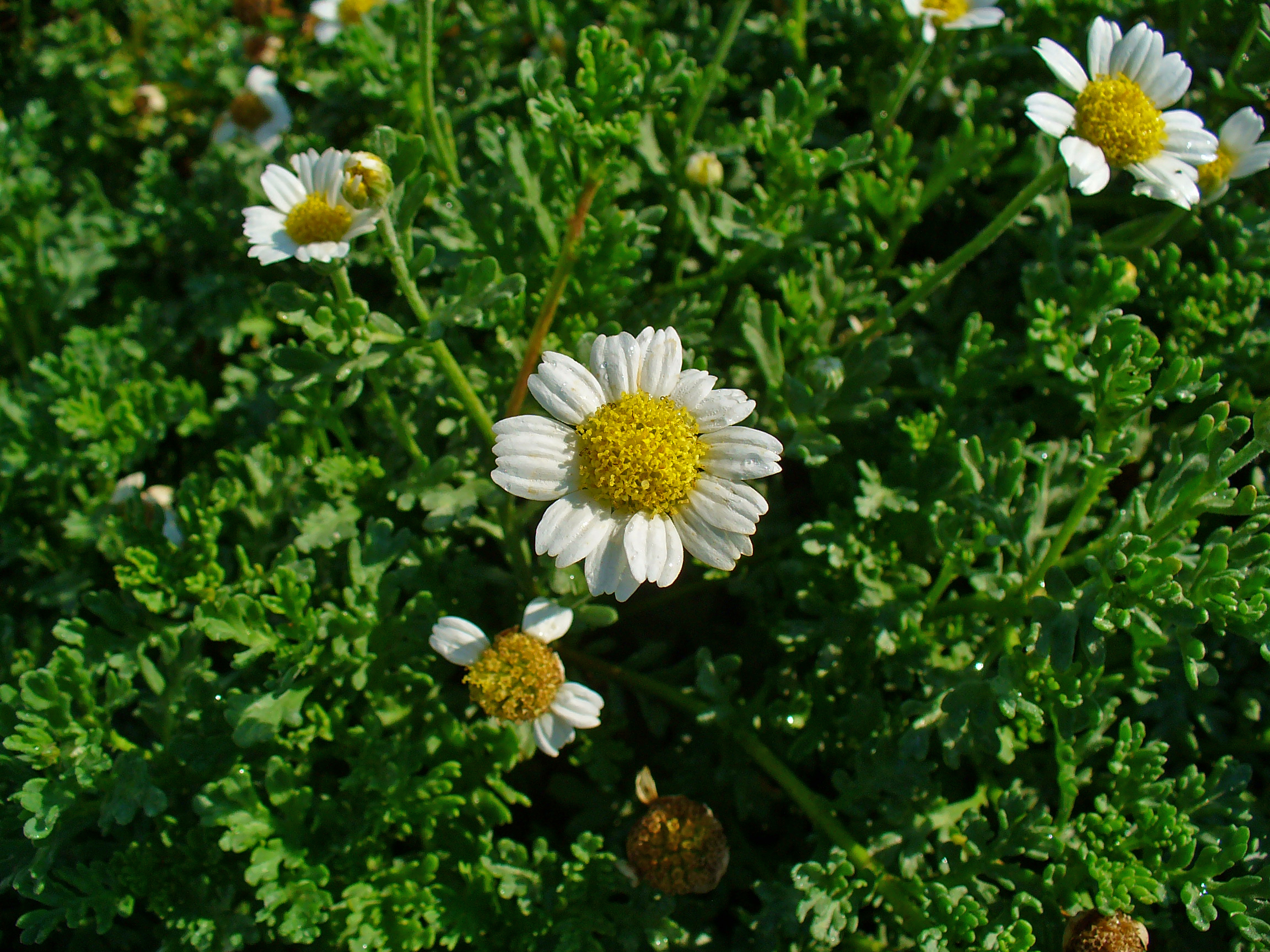 Seaside Chamomile, Habitus; Mediterranean coast near Leucate, Southern France.